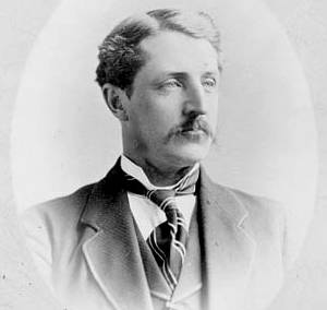 Lt.-Col. A.T.H. Williams, Member for E. Durham, Ontario Legislative Assembly